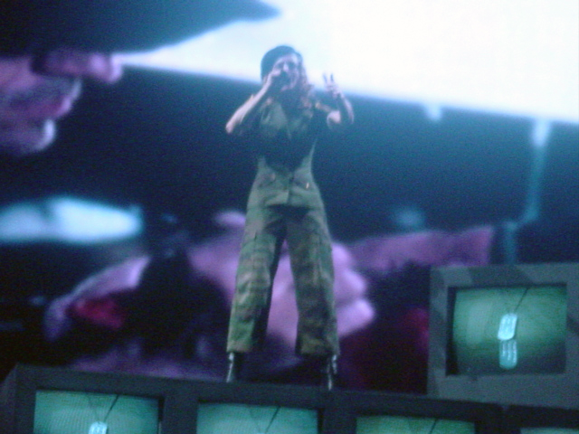 Concert